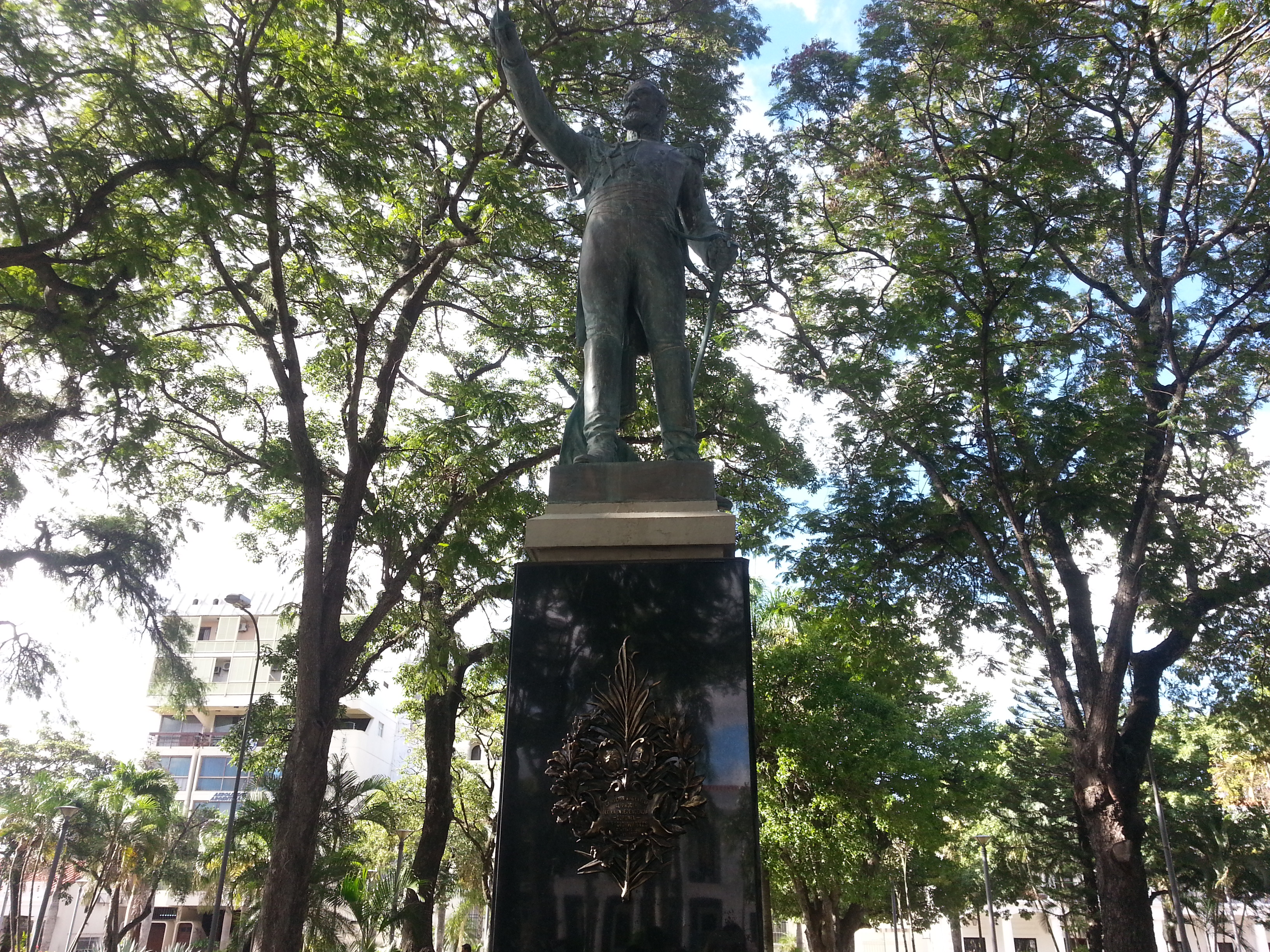 Monument to Ignacio Warnes in Santa Cruz, Bolivia.